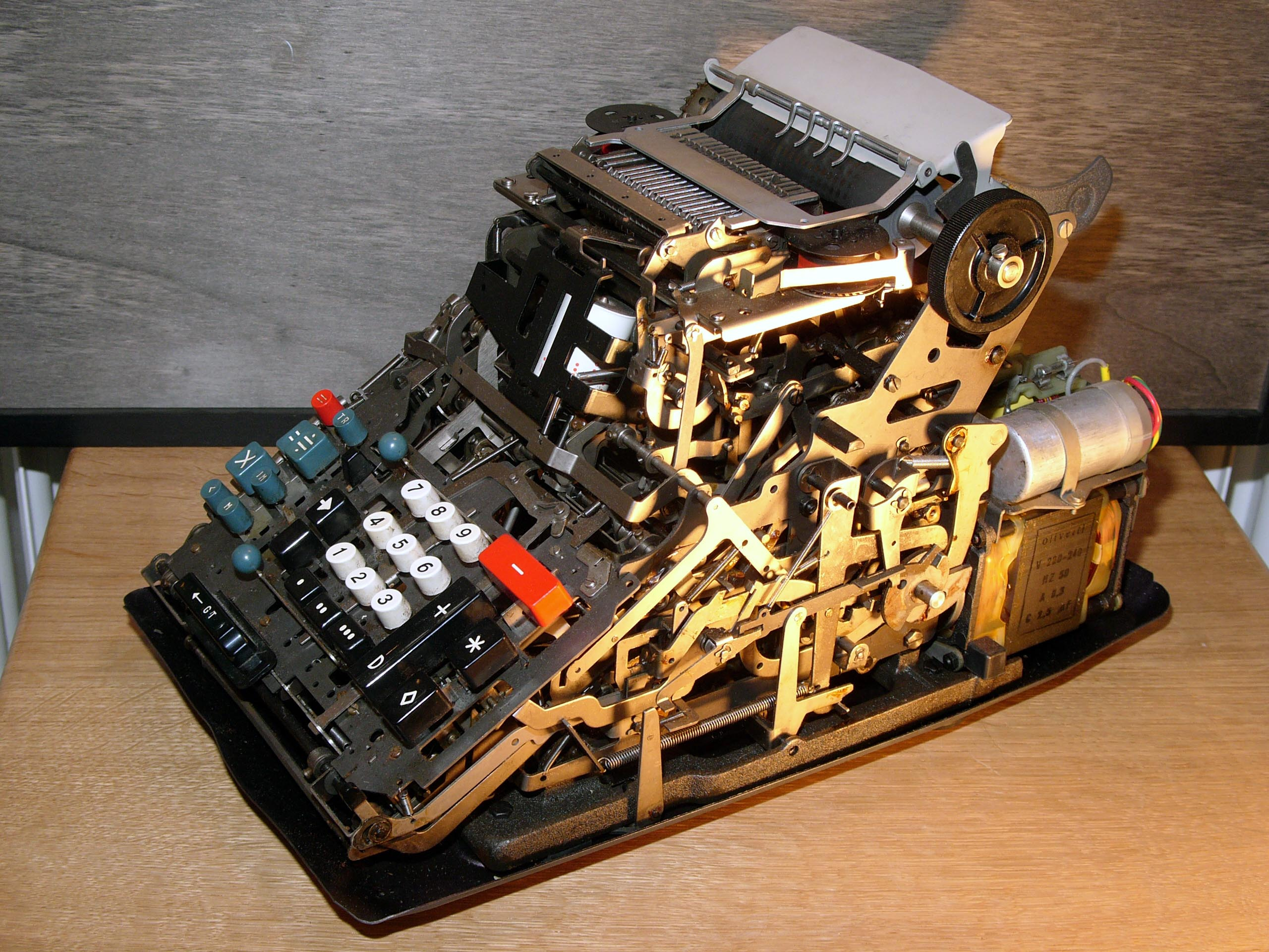 Olivetti Divisumma 24 (1964)